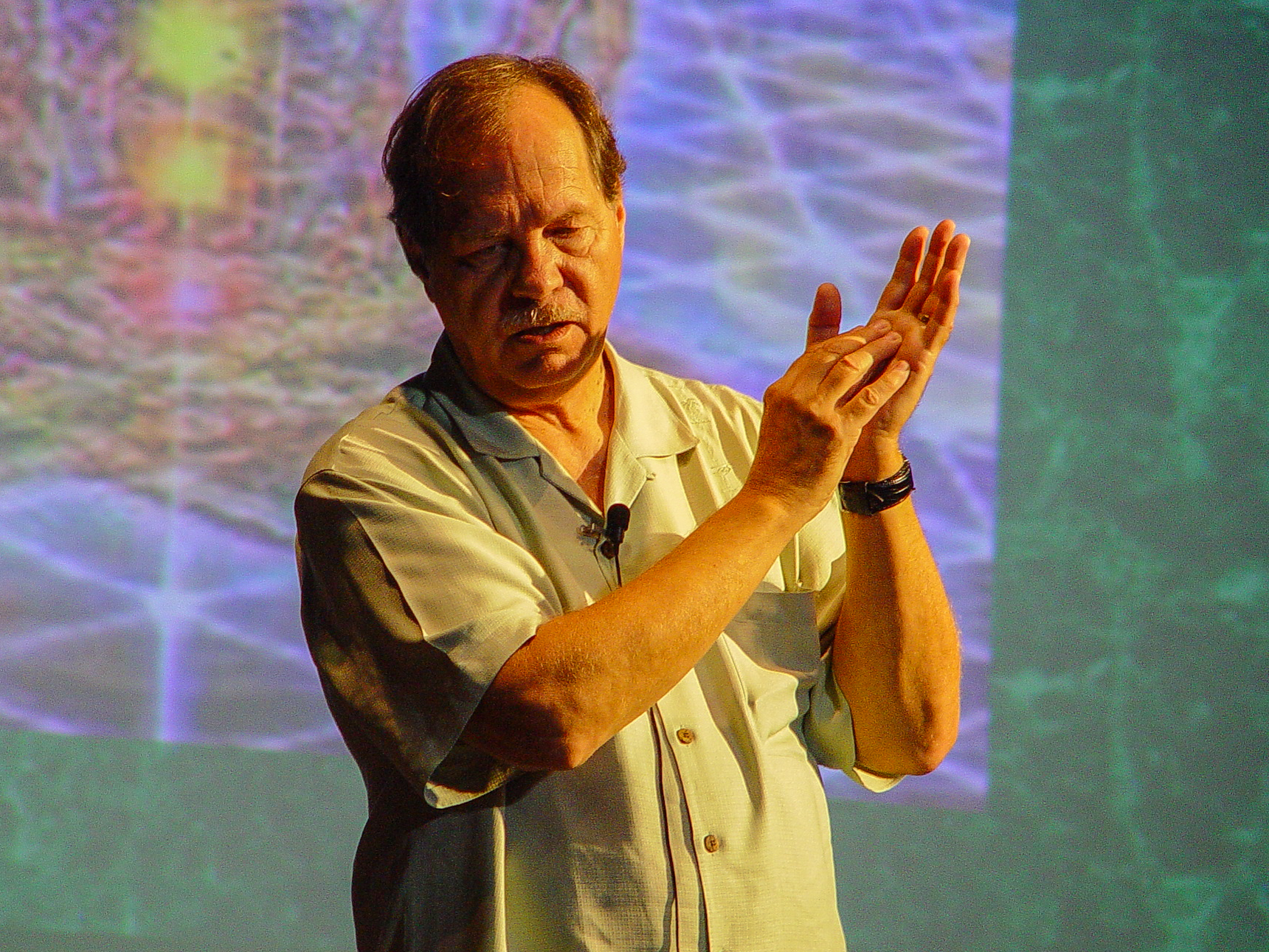 Christopher Vogler lectures in Tel Aviv (2014)